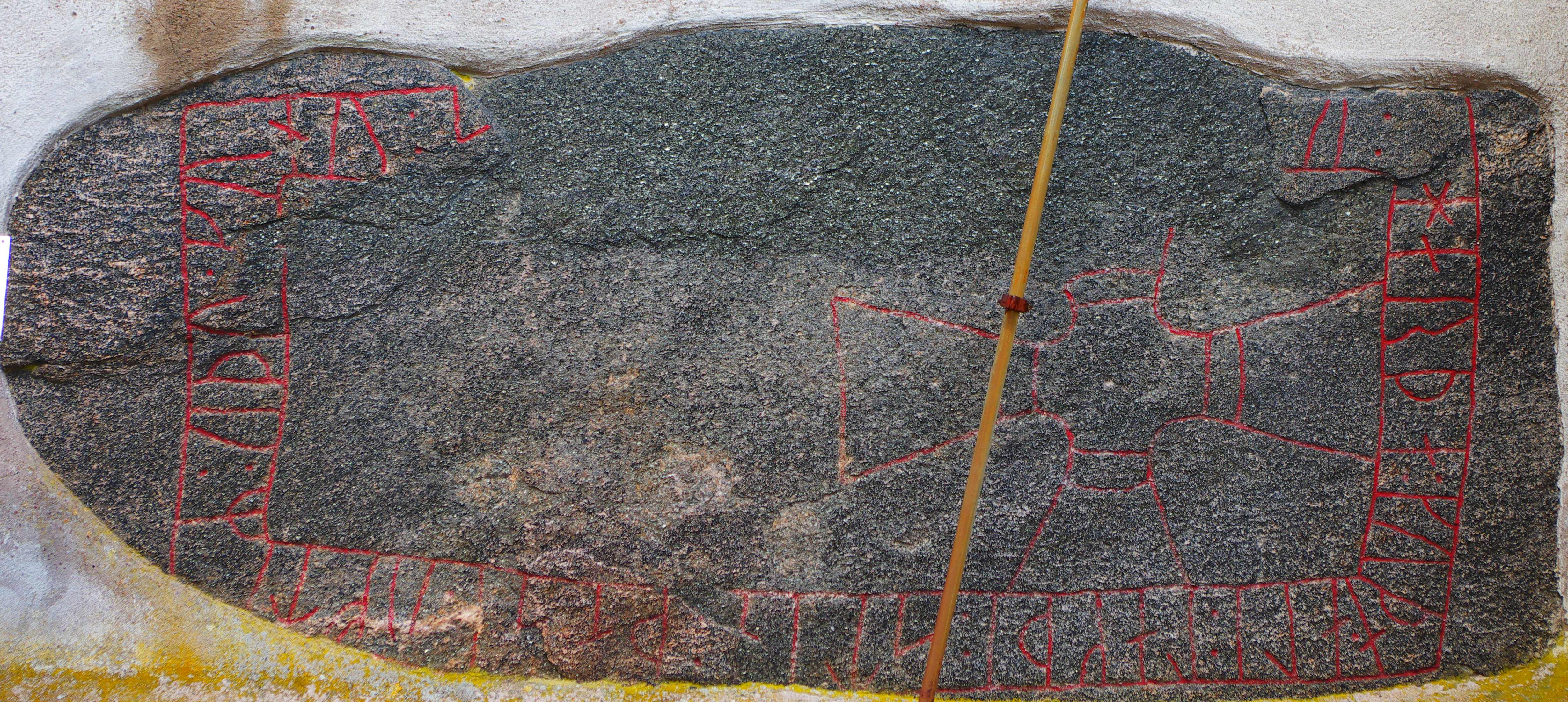 The rune stone (vg 75) next to Västra Gerums kyrka (english:Västra Gerum church) in Västergötland and in Skara Municipality in Västra Götaland county, Sweden.